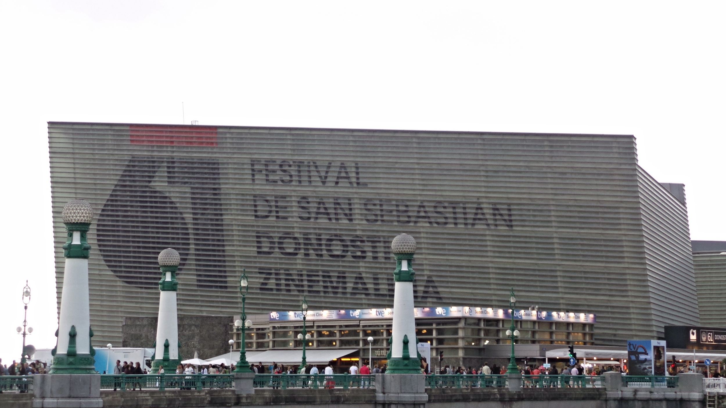 Film festival in Donostia, 2013.